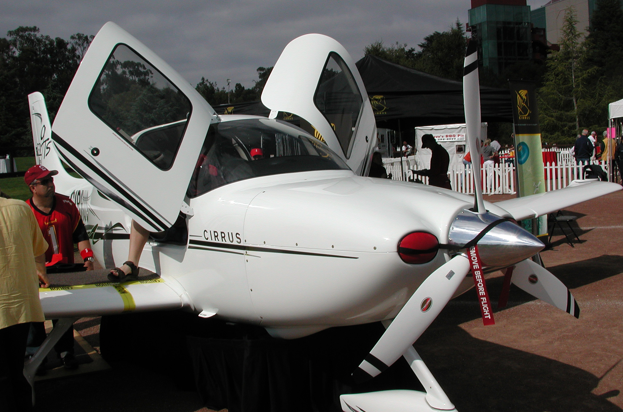 Cirrus SR22-GTS demo aircraft being shown at Stanford game (